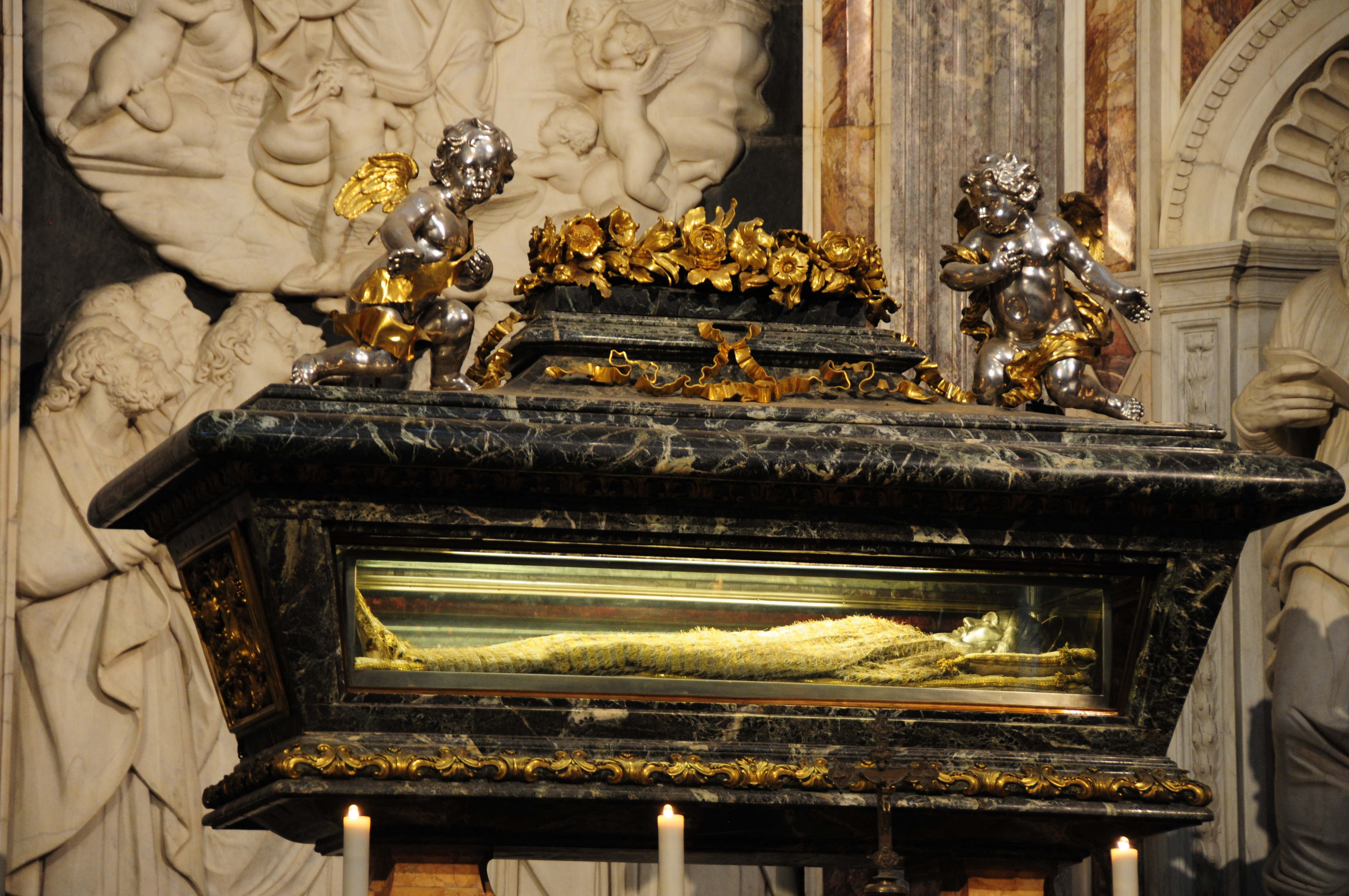 Tomb of Saint Rainerius (c. 1115/7 – 1160), patron saint of Pisa and of travellers